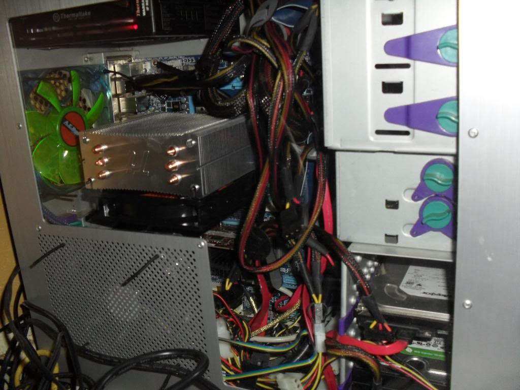 Thermaltake W0307 EVO Blue 650W PSU & Thermaltake CL-P0568 Heatsink